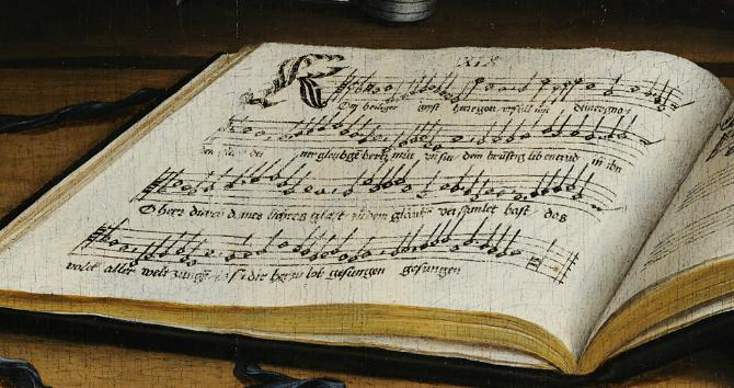 Holbein Ambassadeurs detail page de gauche livre des chants